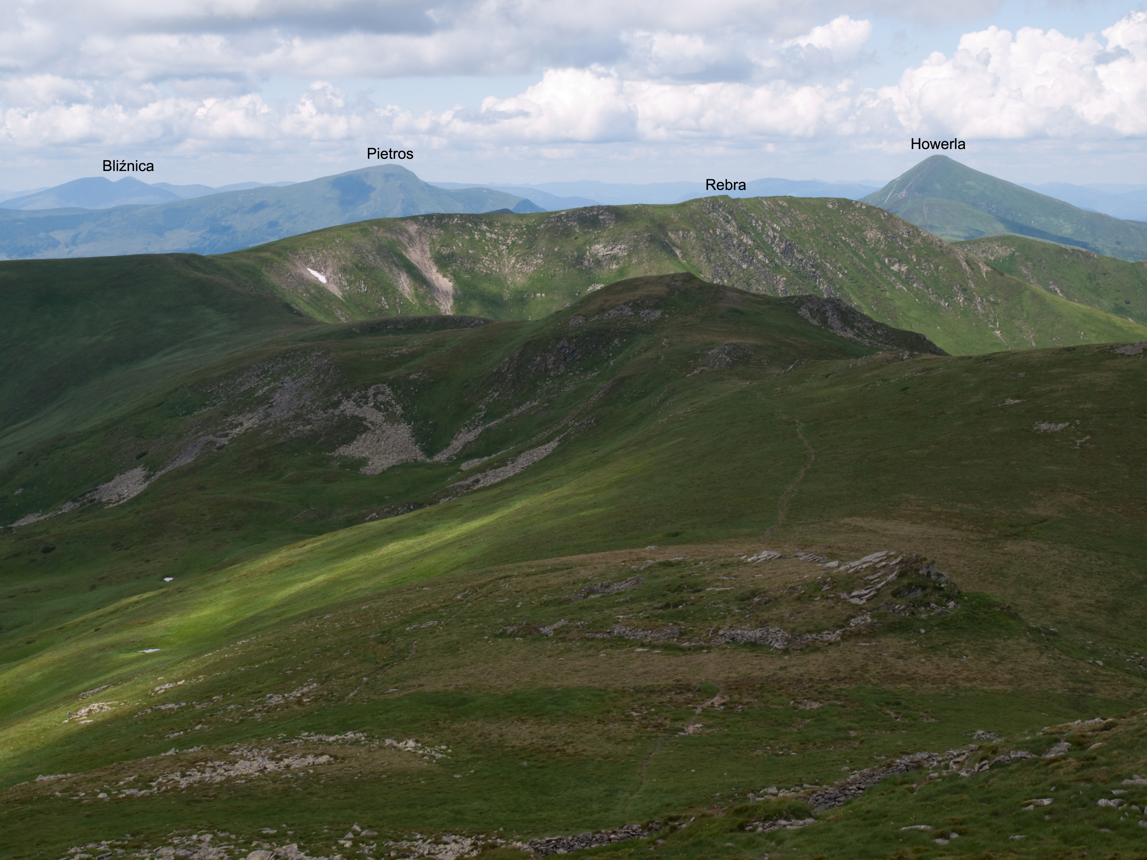 A view from the main ridge of Chornohora mountains (Polish captions).